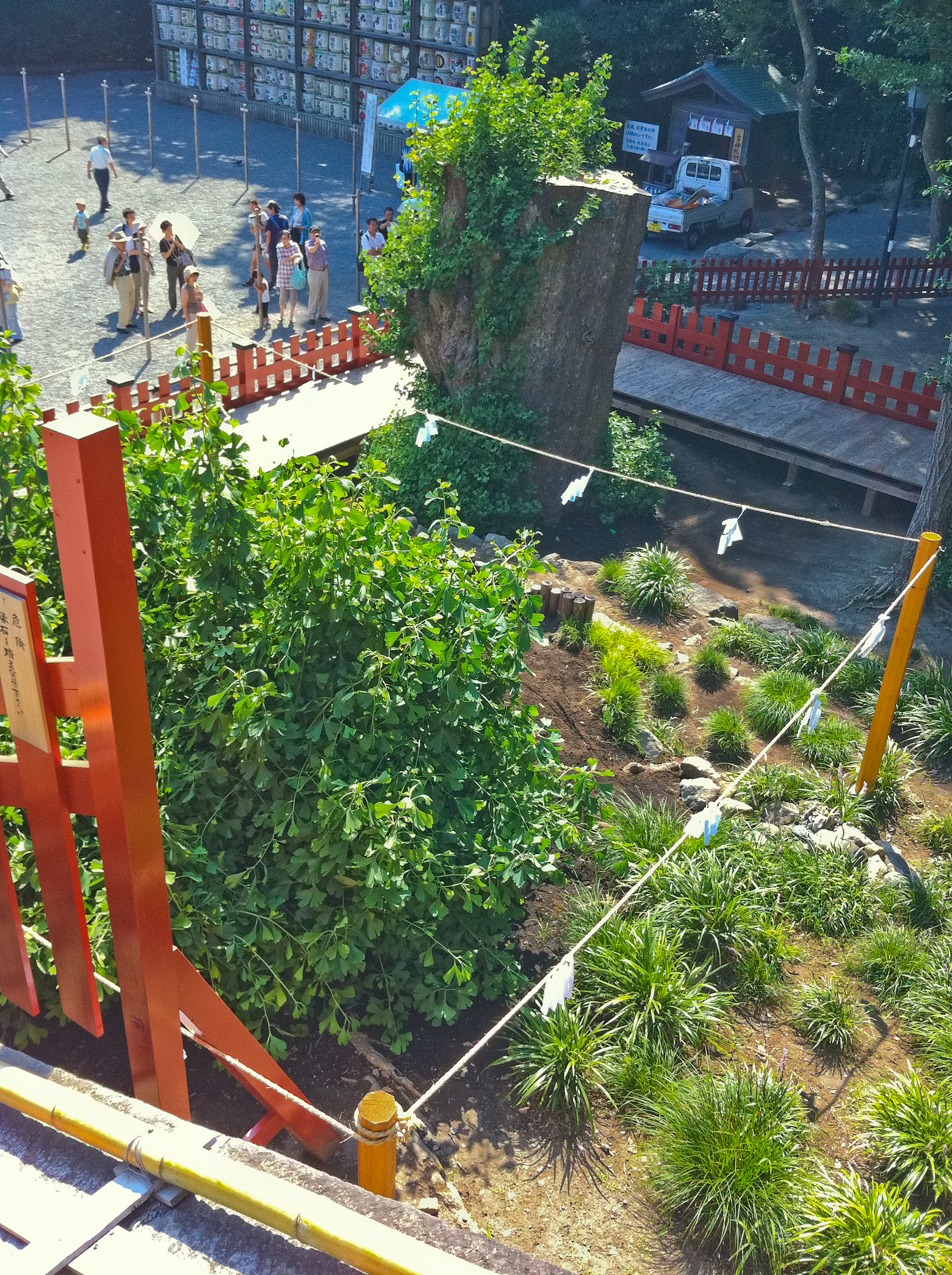 The ginkgo that had stood next to Tsurugaoka Hachiman-gū's stairway almost from its foundation and which appears in almost every old print of the shrine, was completely uprooted and irreparably damaged at 4:40 in the morning on March 10, 2010. According to an expert who analyzed the tree, the fall is likely due to rot. Both the base of the severed tree and a replanted section of the trunk have sprouted leaves.